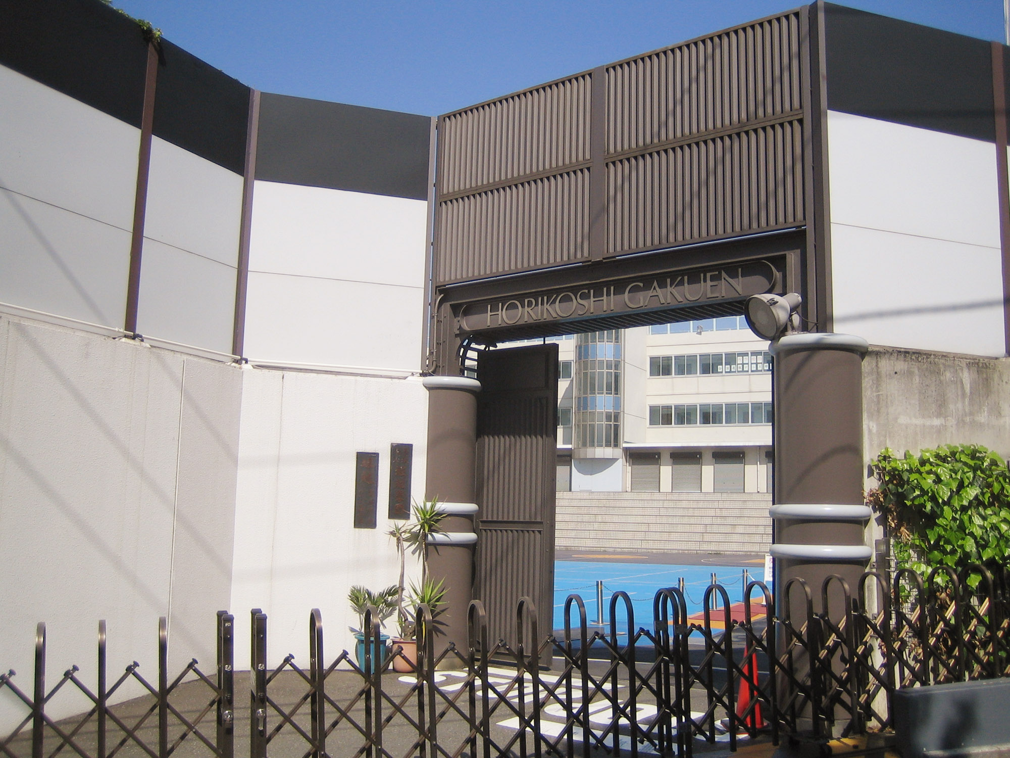 Horikoshi High School (堀越高等学校), in Nakano, Tokyo, Japan